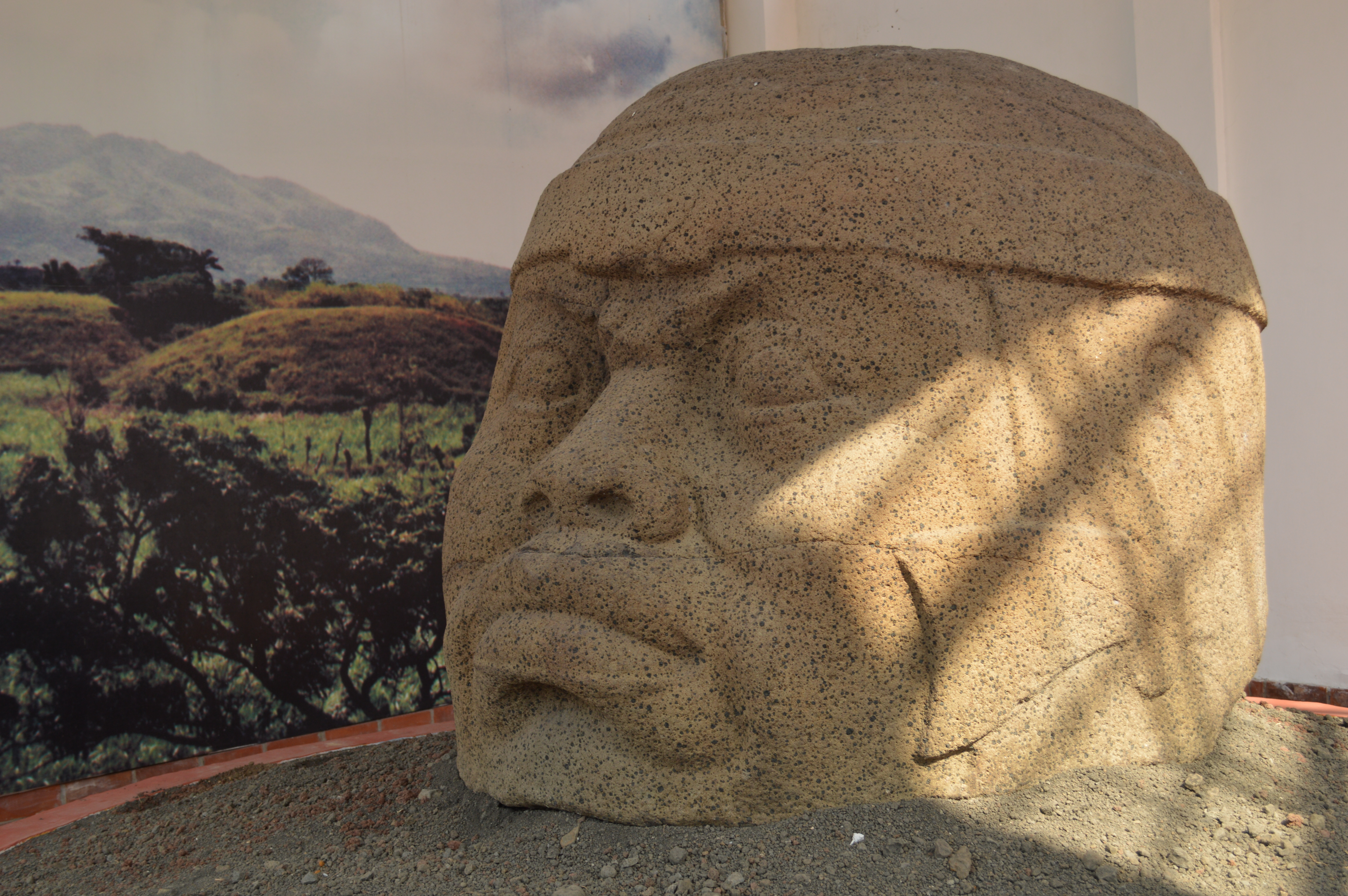 Monument Q from Tres Zapotes at the Museo Regional Tuxteco in Santiago Tuxtla, Veracruz, Mexico